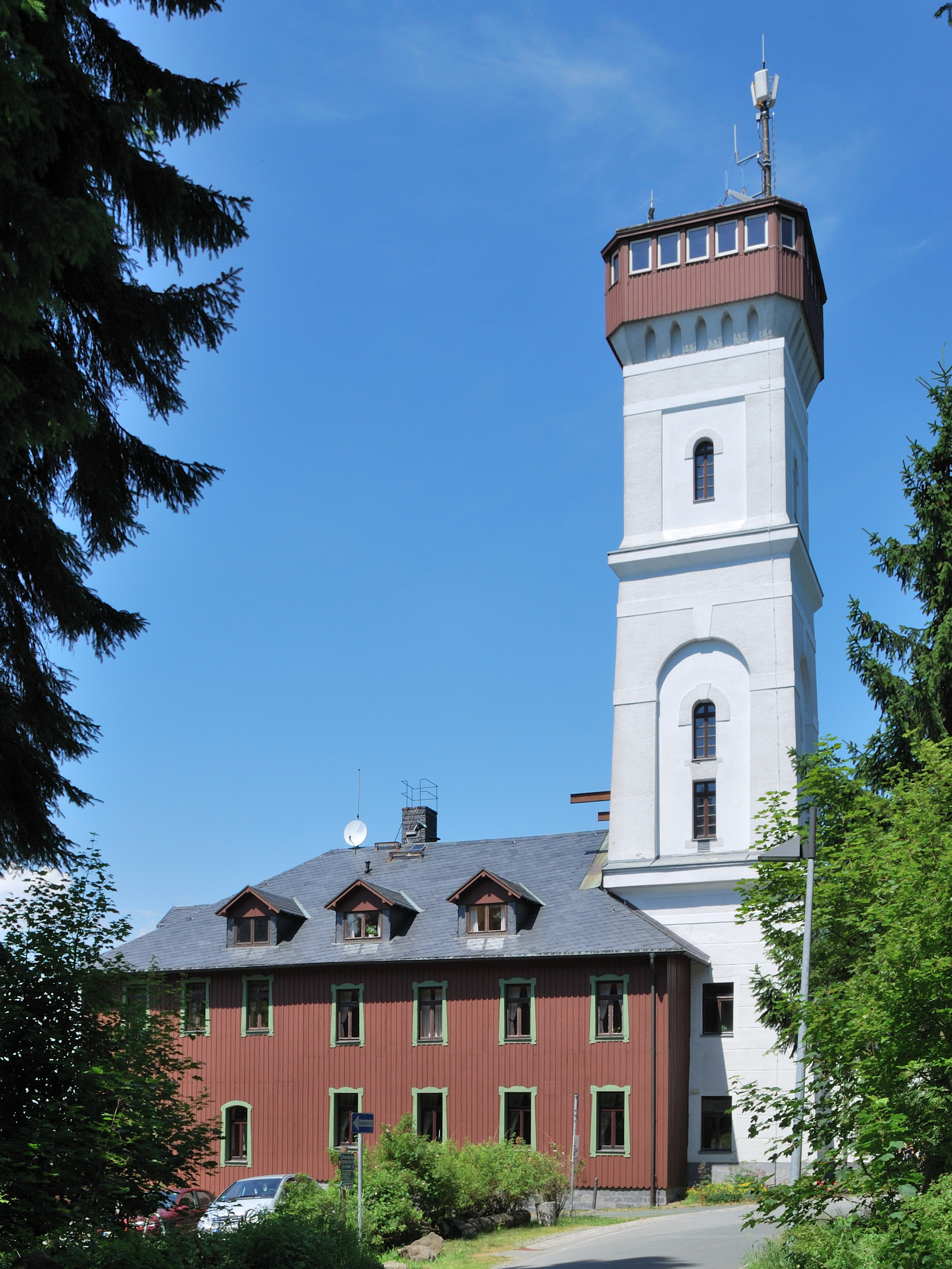 Look-out tower on the Pöhlberg in Annaberg-Buchholz, Saxony in Germany.